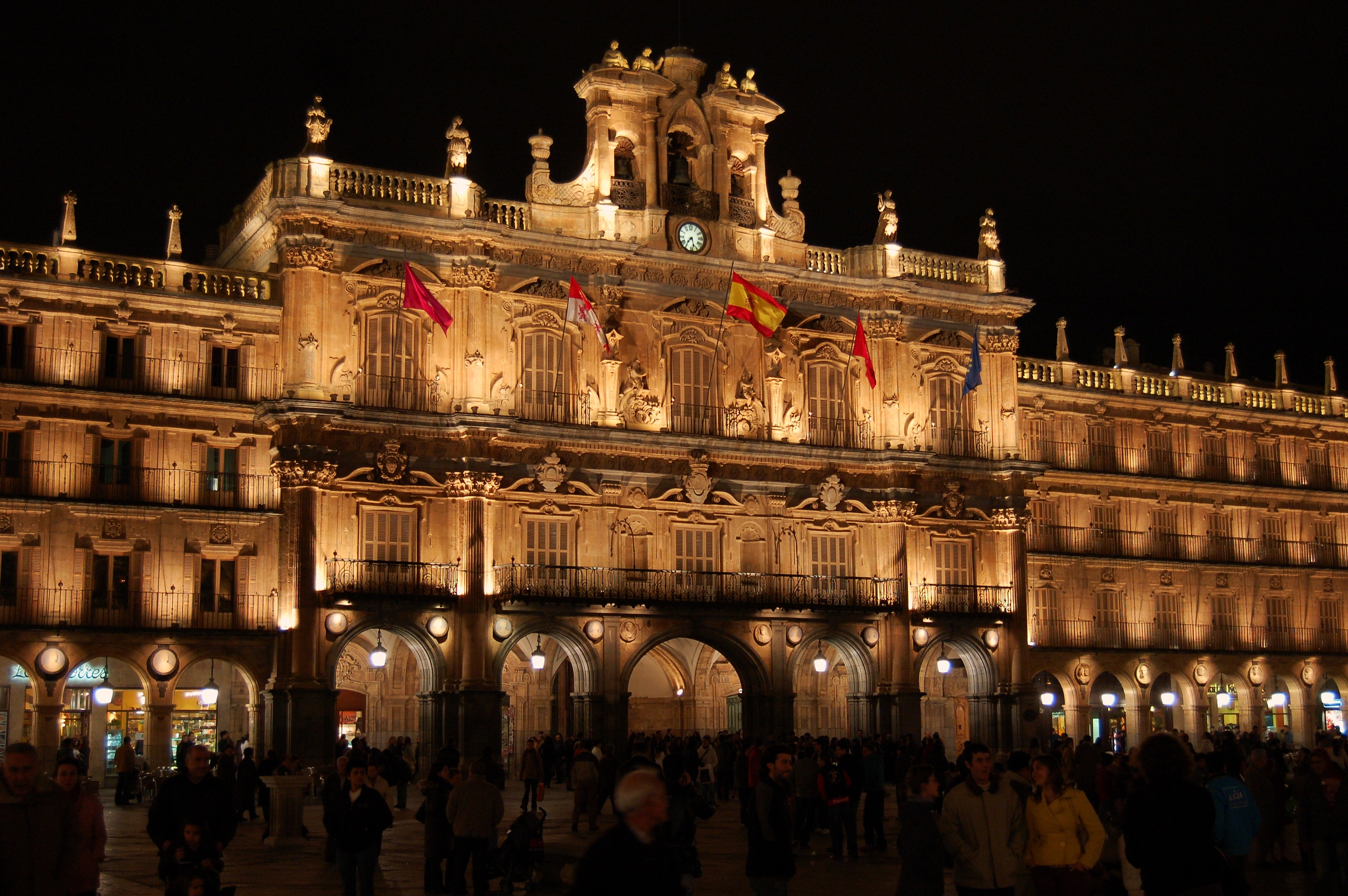 Plaza Mayor in Salamanca, Spain, showing the City Hall.